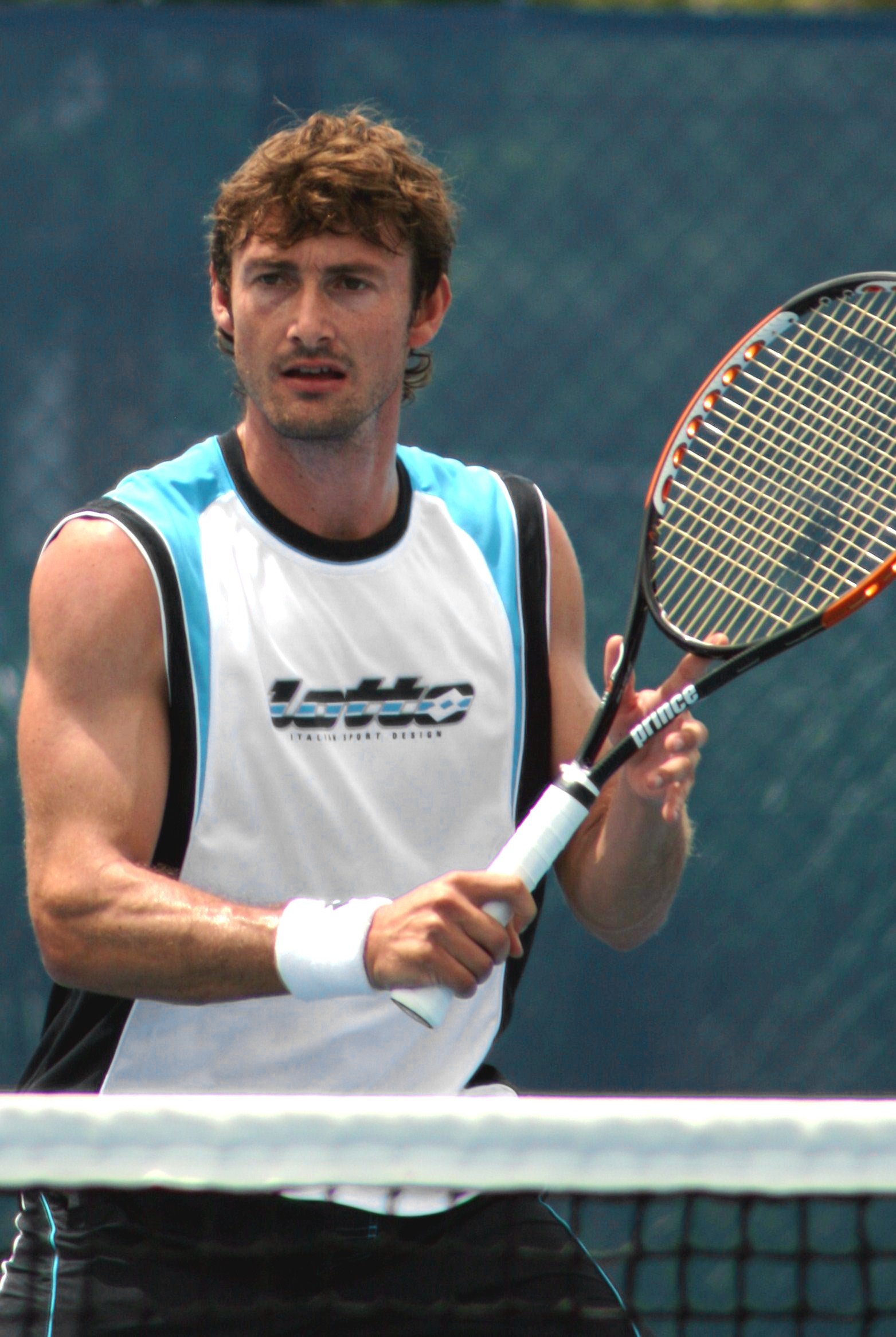 Juan Carlos Ferrero at the 2009 Brisbane International